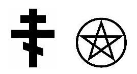 Two symbols among more than 40 that are authorized for use in National Cemeteries on headstones and markers, symboling religious or belief systems of the deceased.